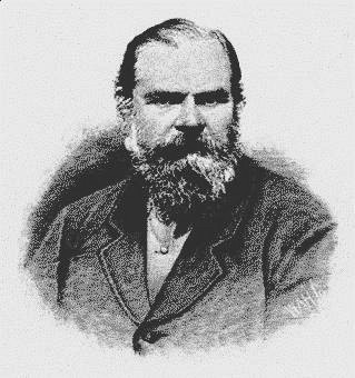 illustration from 19 century book